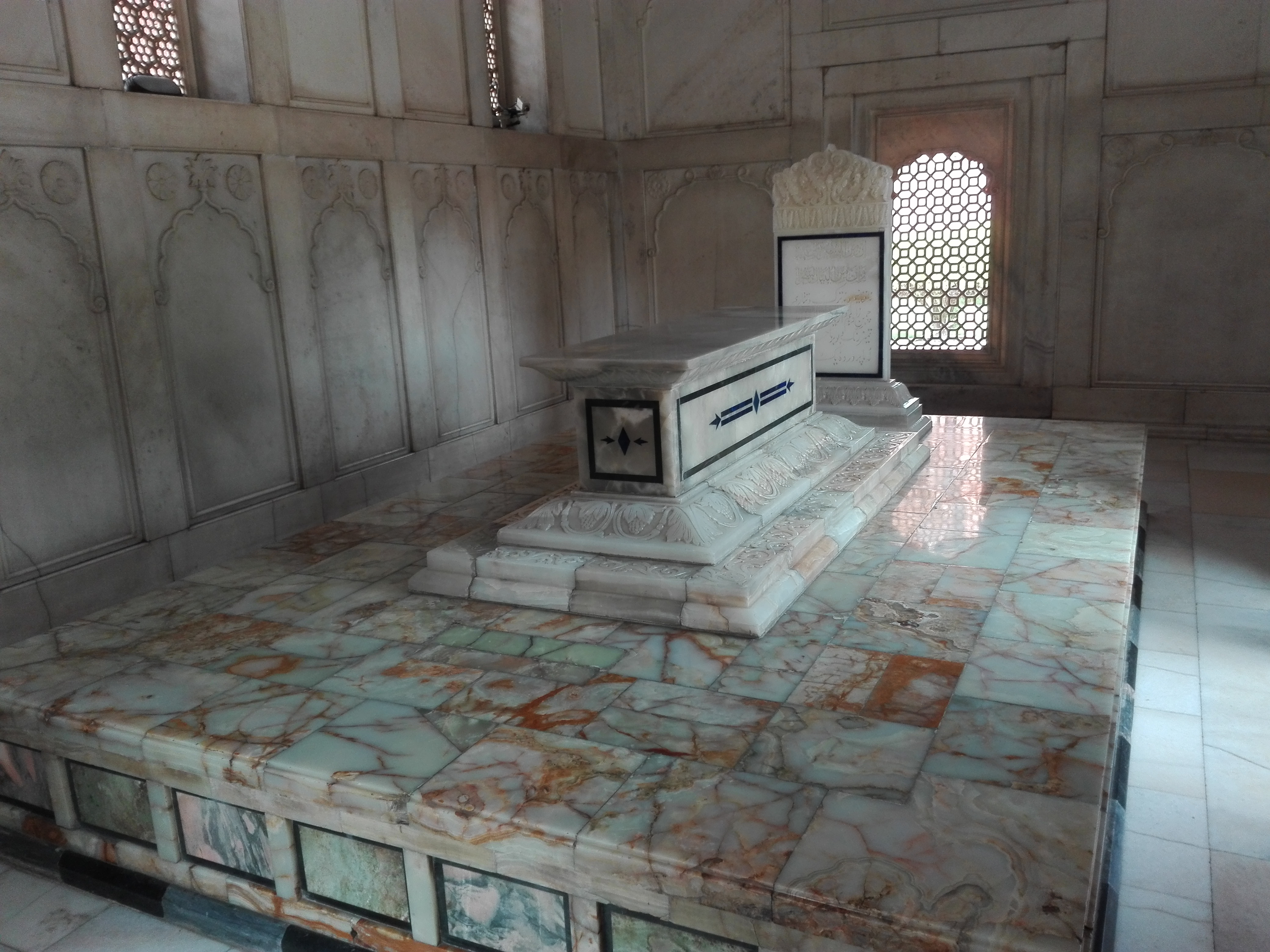 Muhammad Iqbal’s Tomb This is a photo of a monument in Pakistan identified as the PB-70